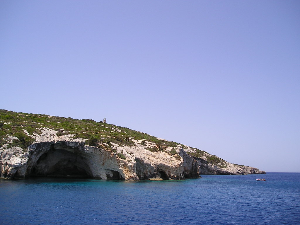 The blue caves in Zakynthos, Greece.